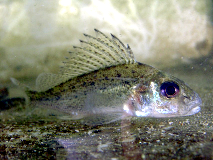 Gymnocephalus cernuus photographed in northern Italy. Photo by Augusto Degiovanni.